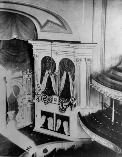 Photograph of the presidential box at Ford's Theater, made two days after the assassination of President Lincoln. At the center of the box is the picture of George Washington which caught one of the spurs of John Wilkes Booth as he jumped to the stage after shooting Lincoln in the back of the head. (AP Photo/Mathew Brady)